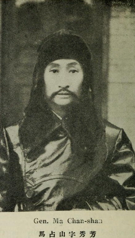 Ma Zhanshan, Xiufang (1885 - 1950)